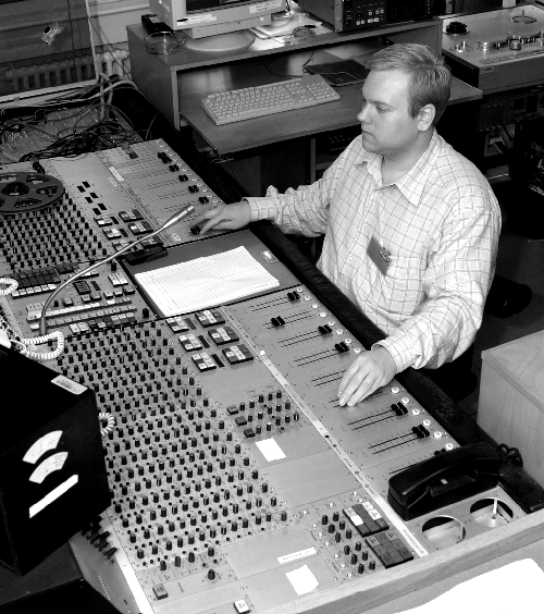 Mixing console custum made for DR (former Danish state broadcaster) by company NP Elektroakustik in Stilling, Denmark